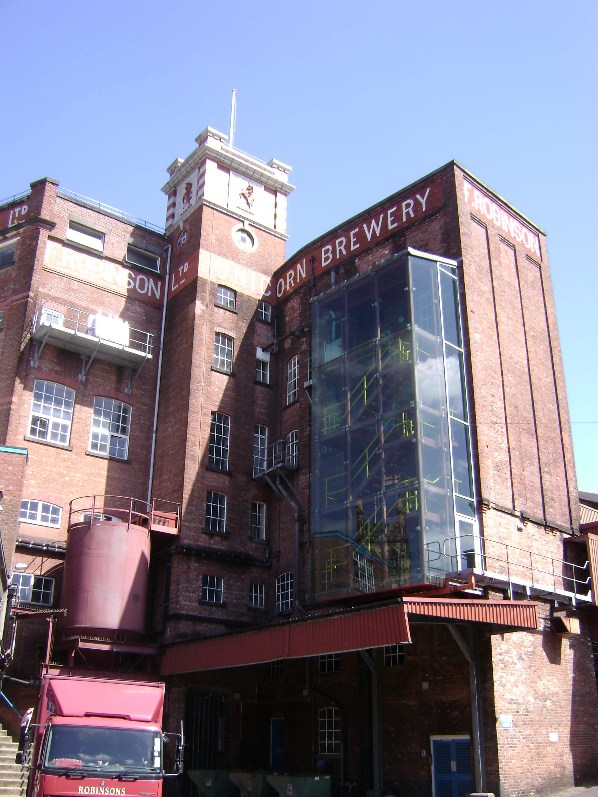 Robinson's Brewery, from Lower Hillgate, Stockport.